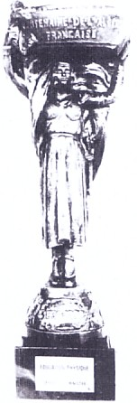 North Africa Cup (1930-1956): This is the trophy of the North Africa Cup, an ancien french football competition in North Africa.